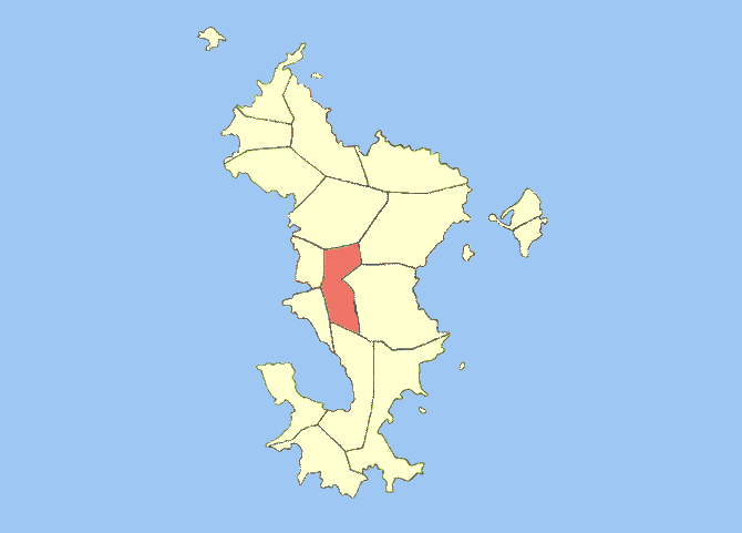 Locator map of Ouangani